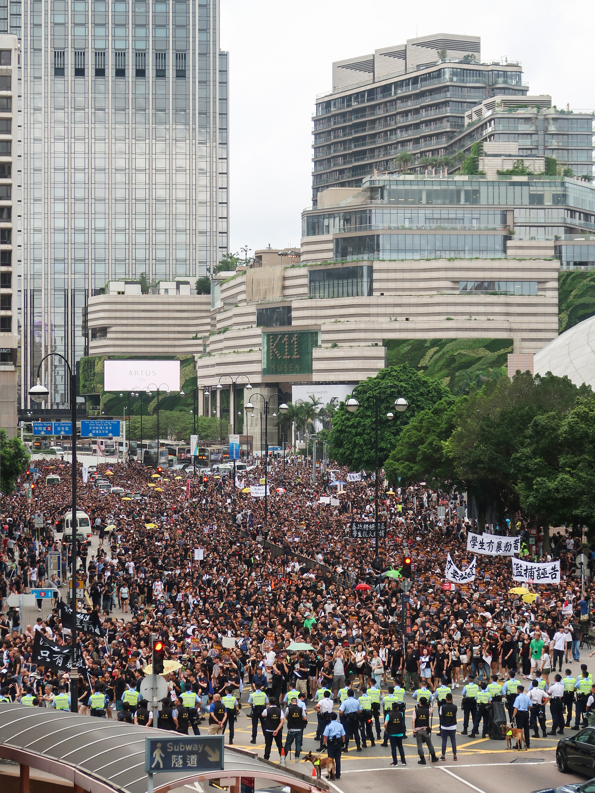 Protesters in Salisbury Road